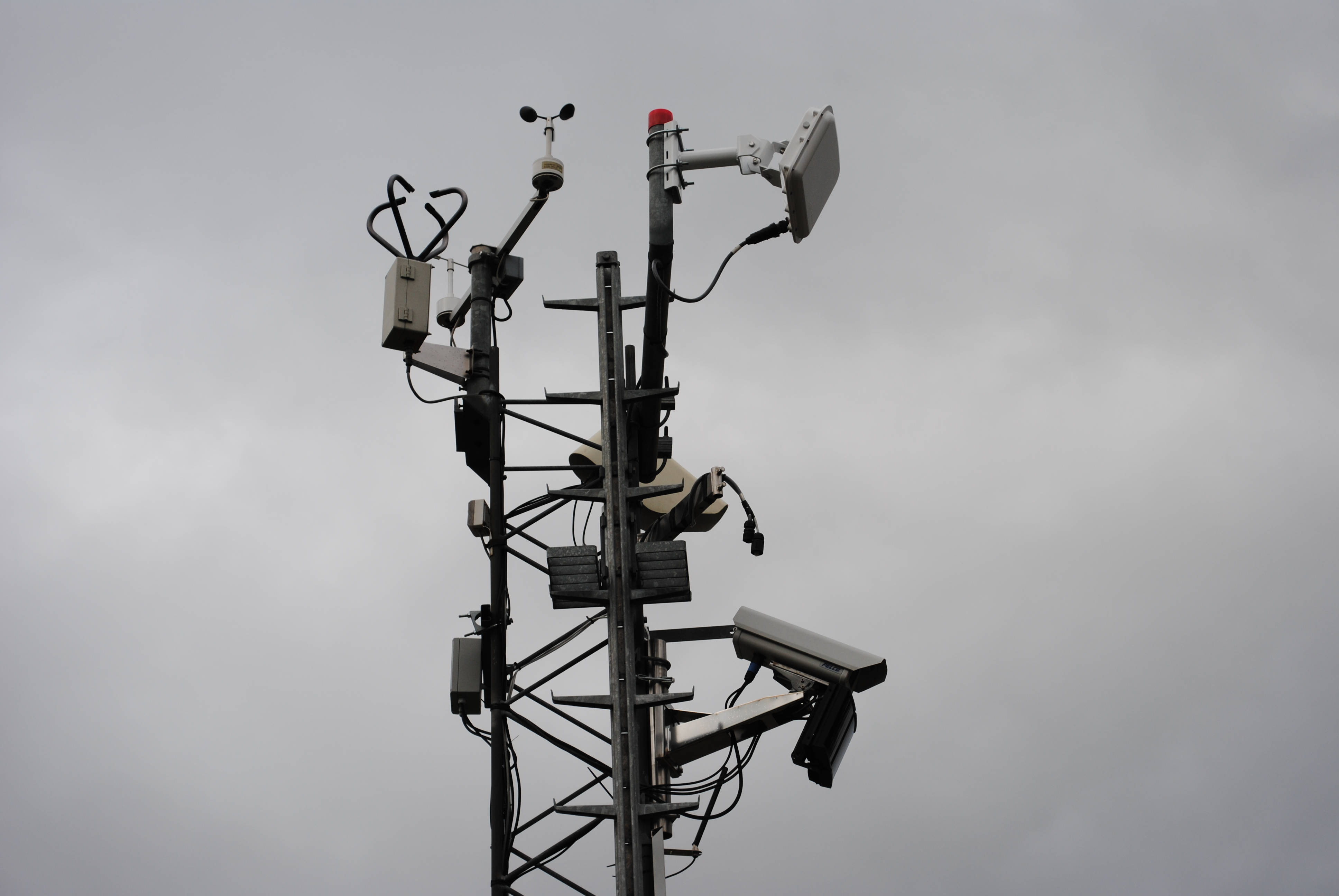 Rwis Station at sensor site Myggsjön